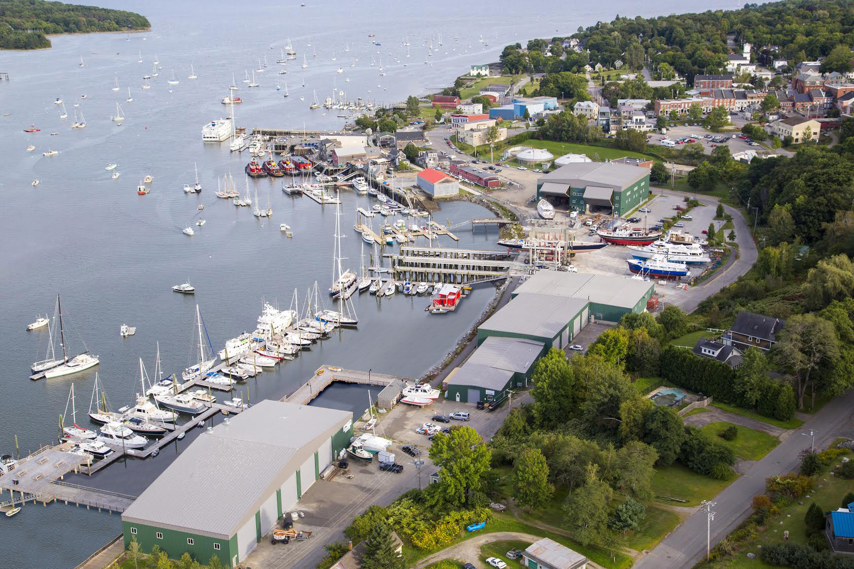 Aerial of Front Street Shipyard in Belfast, Maine.